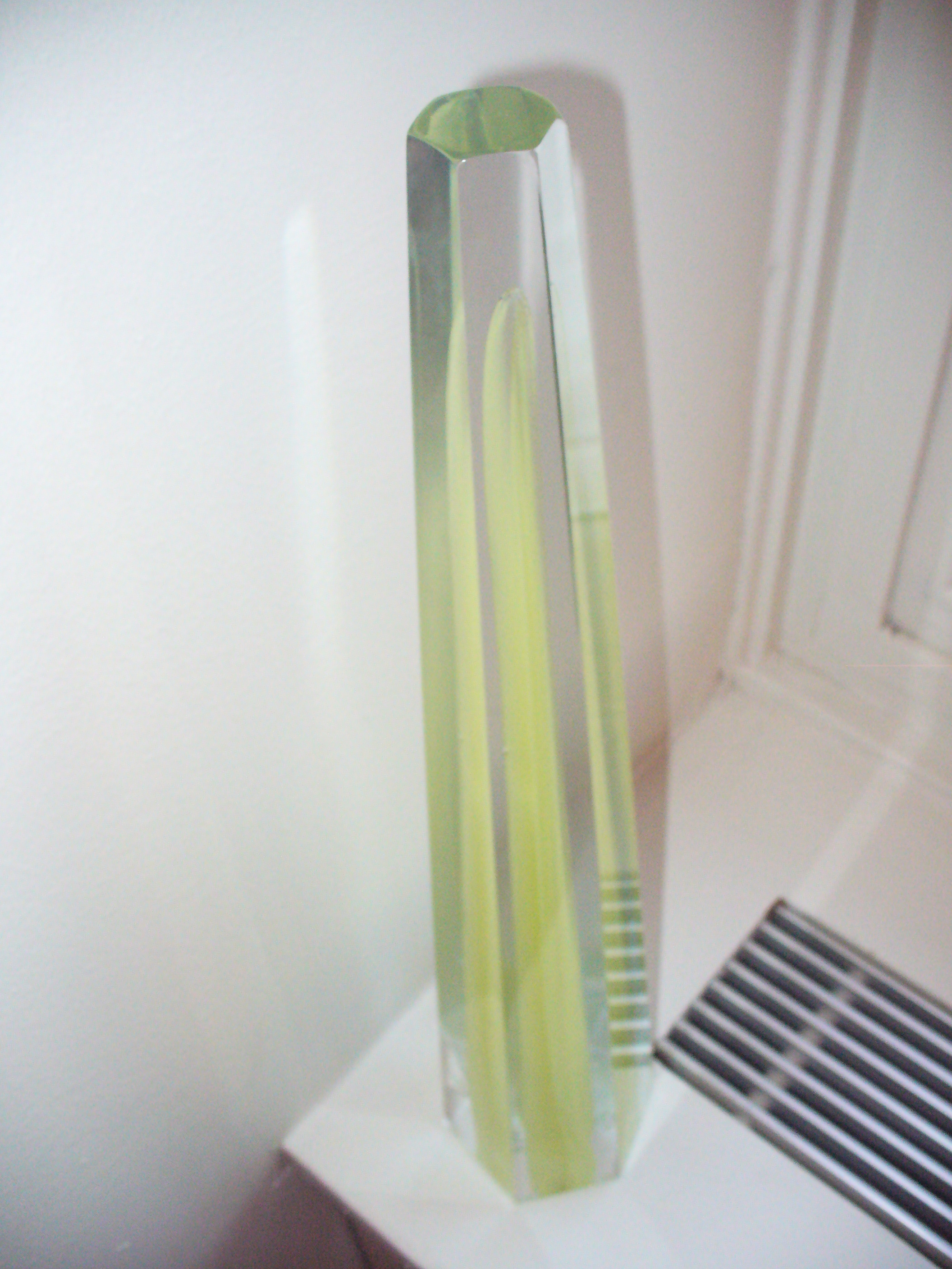 Kristallen (The Crystal) trophy, official award of the Swedish television industry